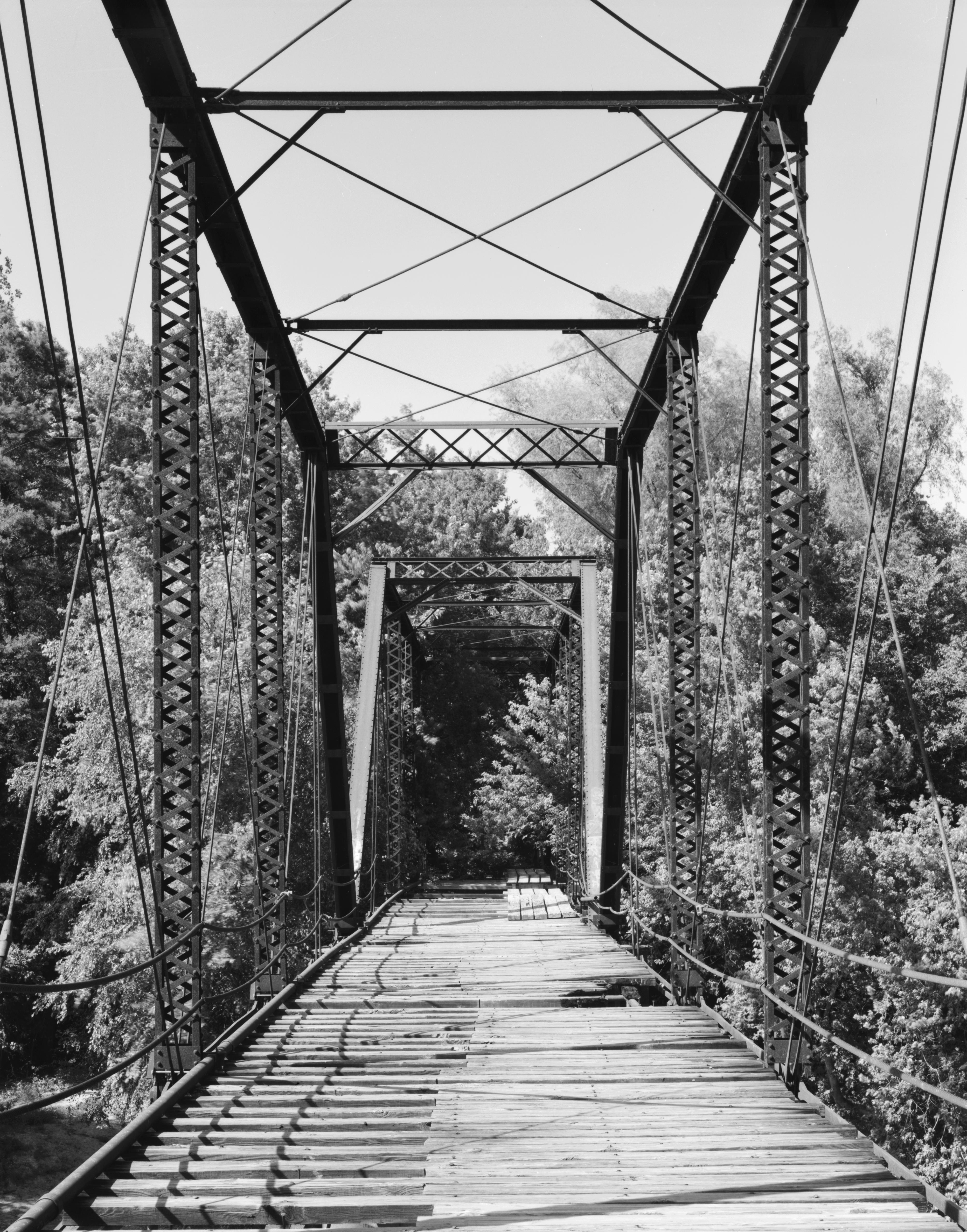 Looking northeast on the Old River Bridge, which carries River Road over the Saline River near Benton in Saline County, Arkansas, United States. Built in 1889, this Pratt through truss bridge is listed on the National Register of Historic Places.